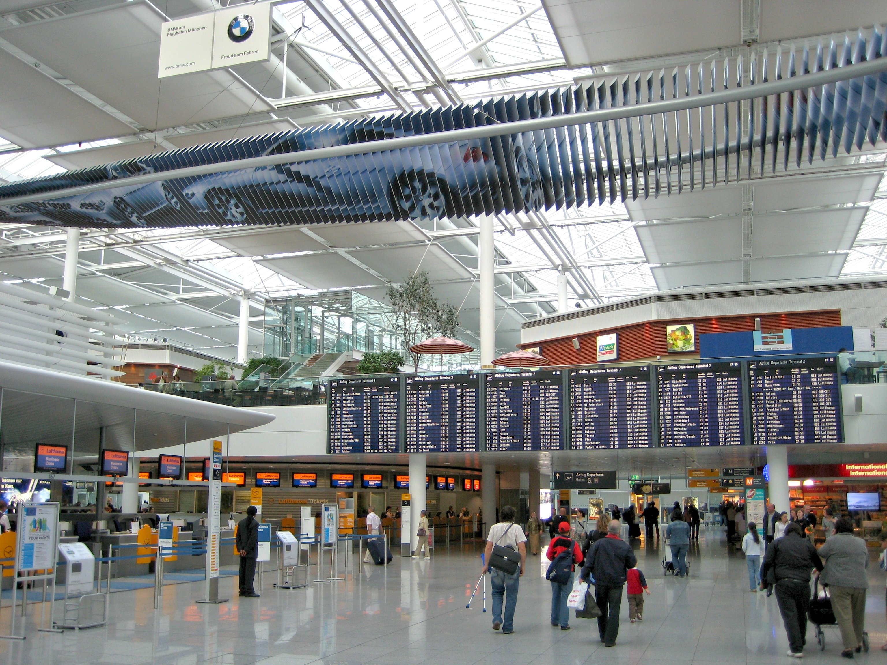 Munich International Airport, Terminal 2, Level 4, check in Lufthansa